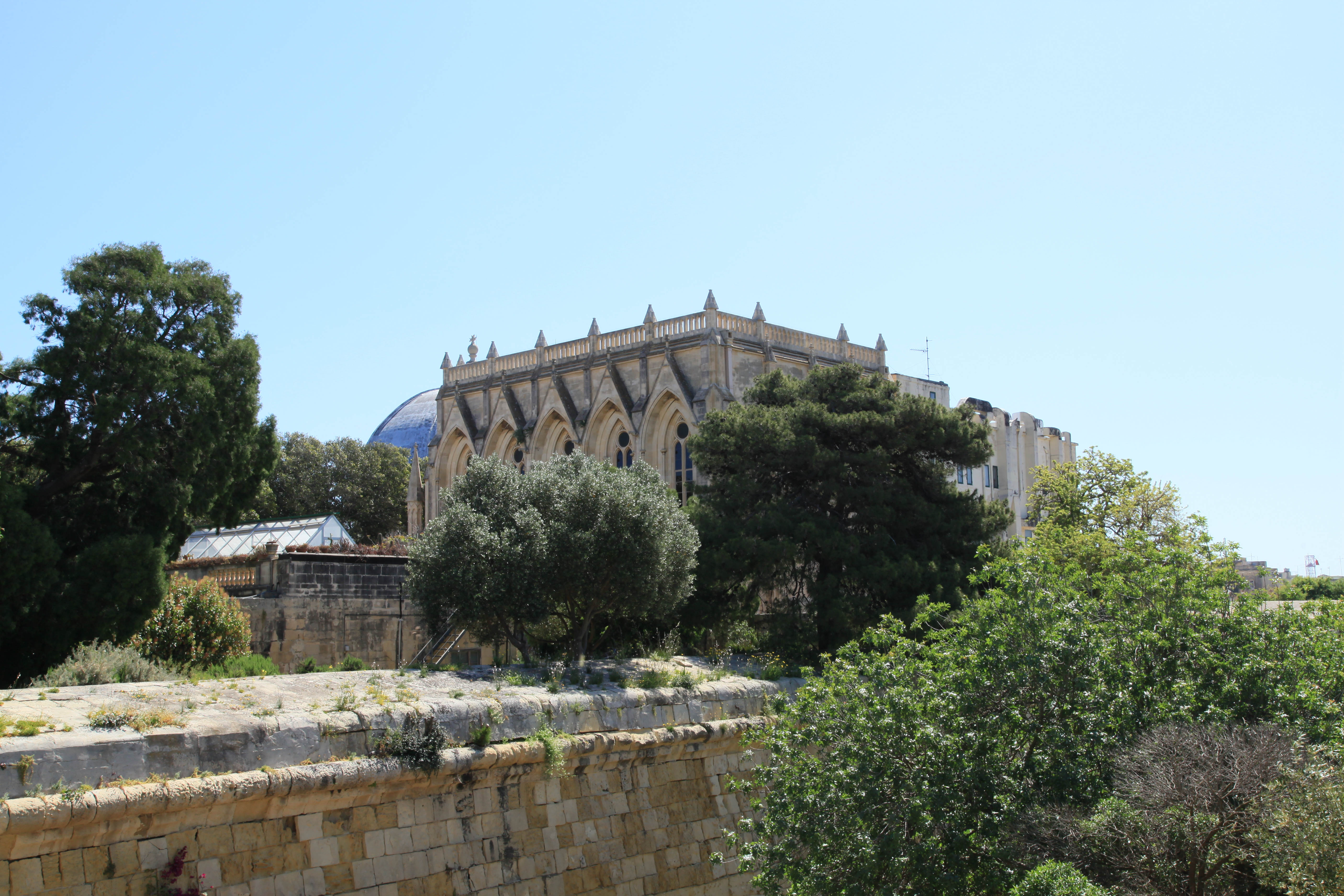 View from Argotti Botanic Gardens to the Robert Samut Hall in Floriana, Malta